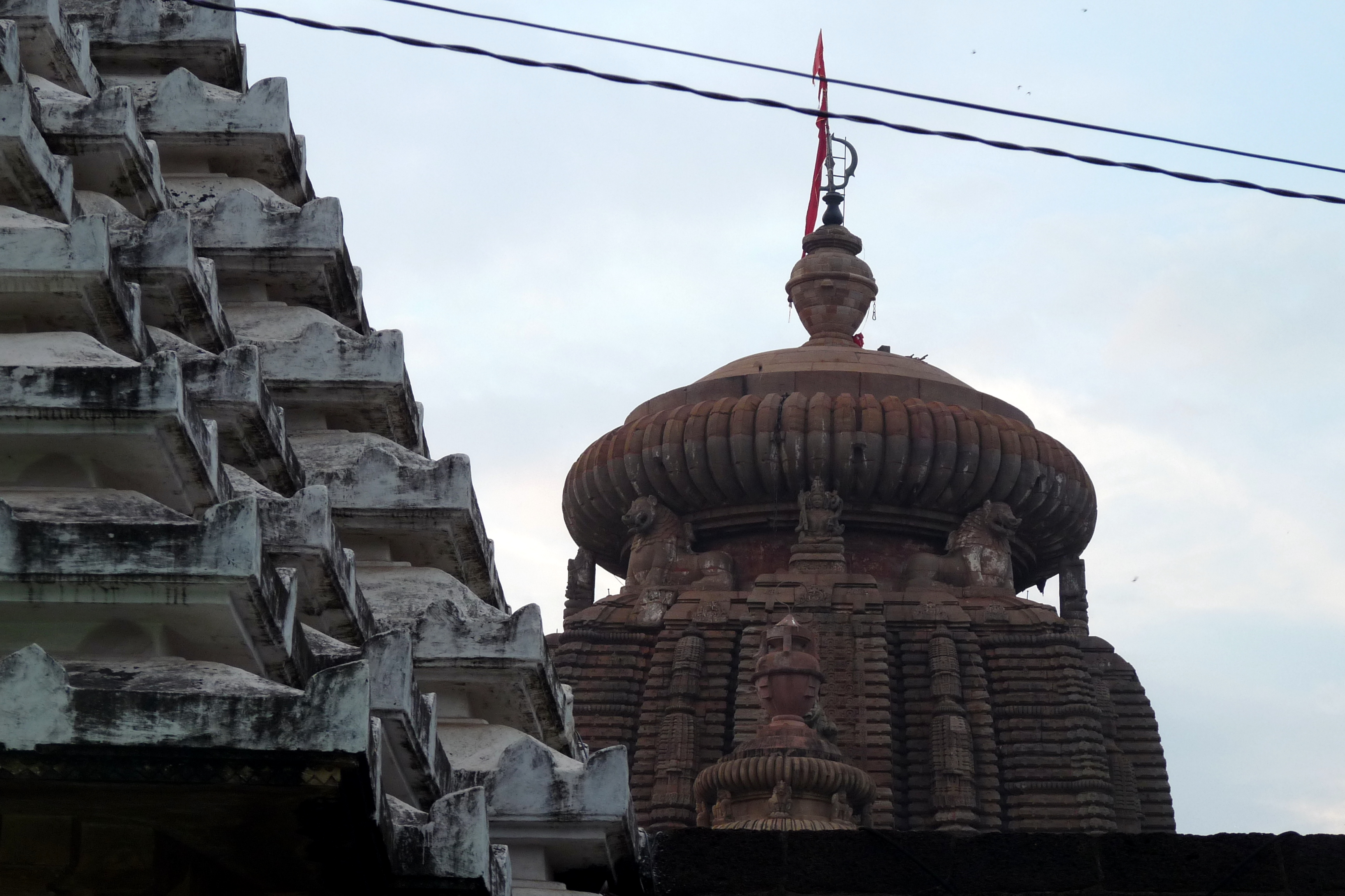 Verandas and old temple at Bhubaneswar